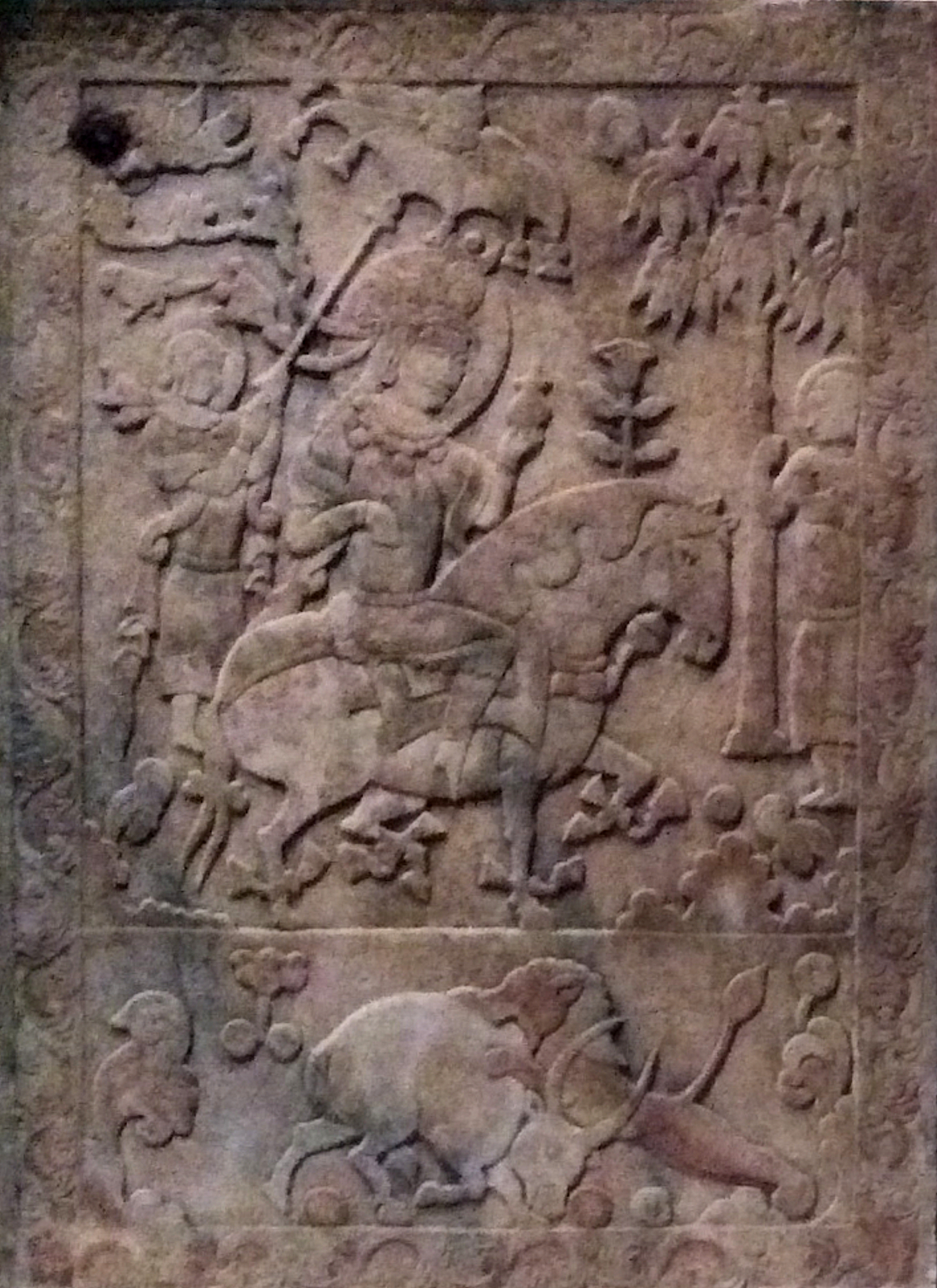 Tomb of Yu Hong Panel 2